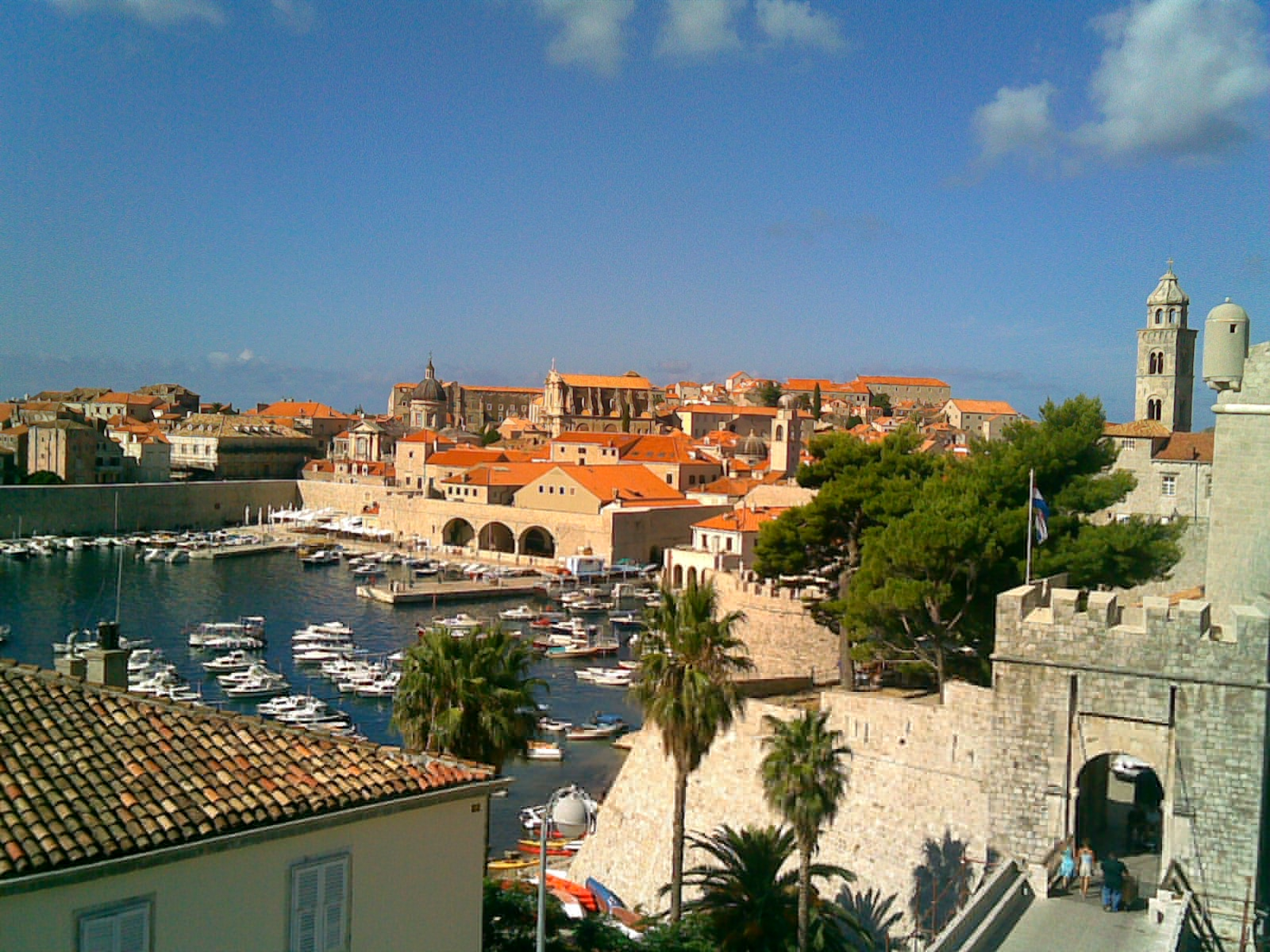 Greenweasel 16:55, 13 September 2006 (UTC) Category:Images of Croatia